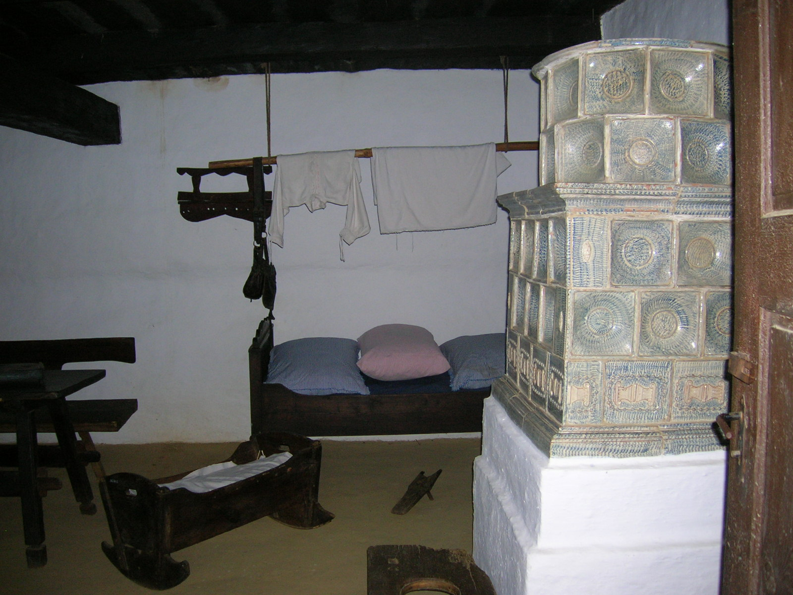 Room in an old peasant home. Göcsej Village Museum, Zalaegerszeg, Hungary.